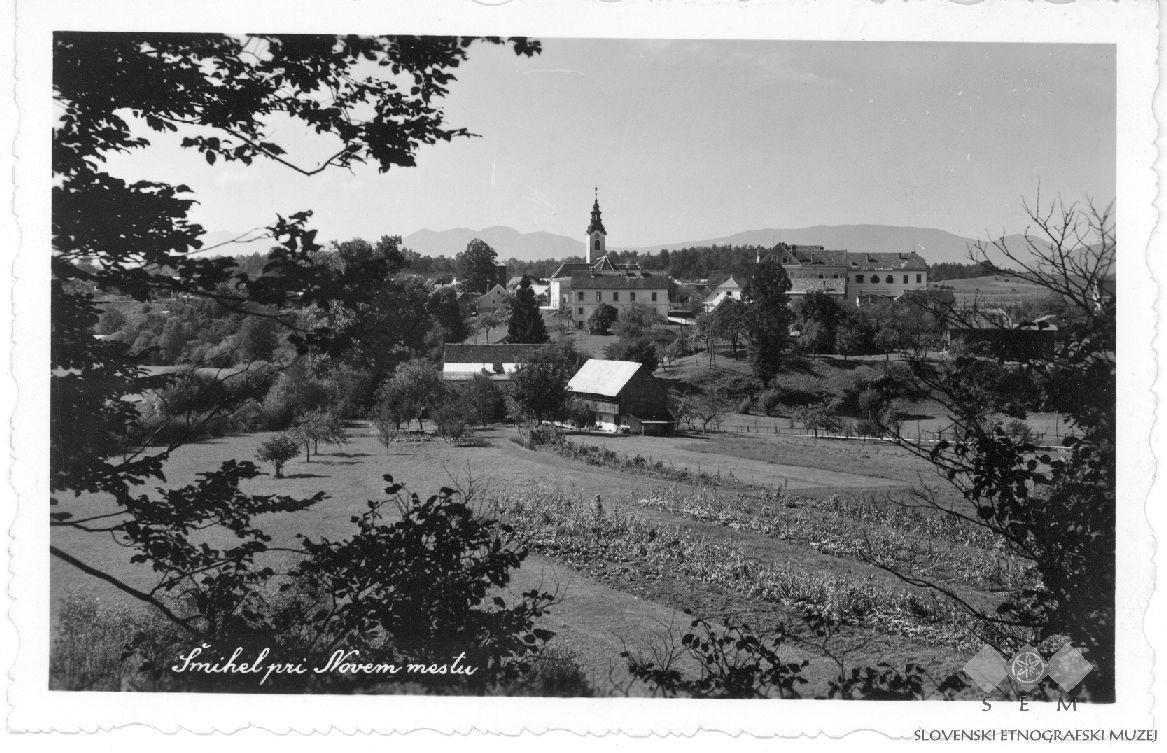 Postcard of Novo mesto, Šmihel